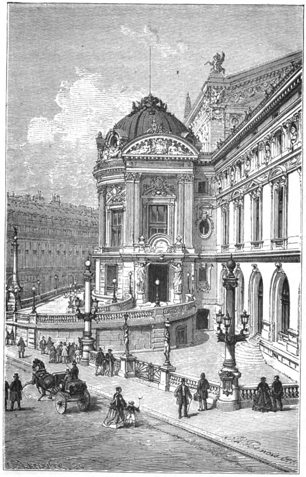 View of the Emperor's Pavilion on the north side of the Palais Garnier of the Paris Opera.